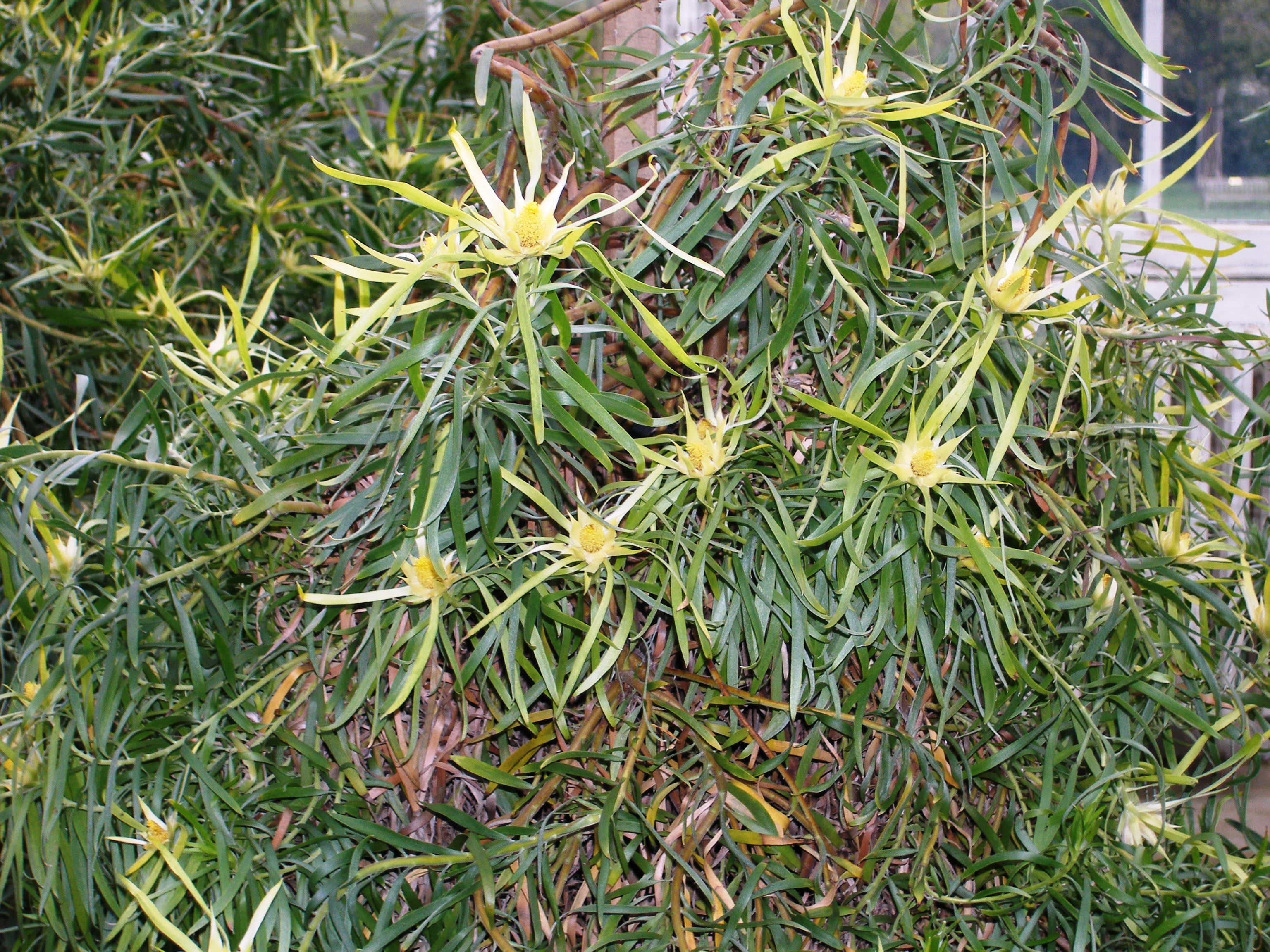 Specimen in cultivation at the Royal Botanic Gardens, Kew, United Kingdom.